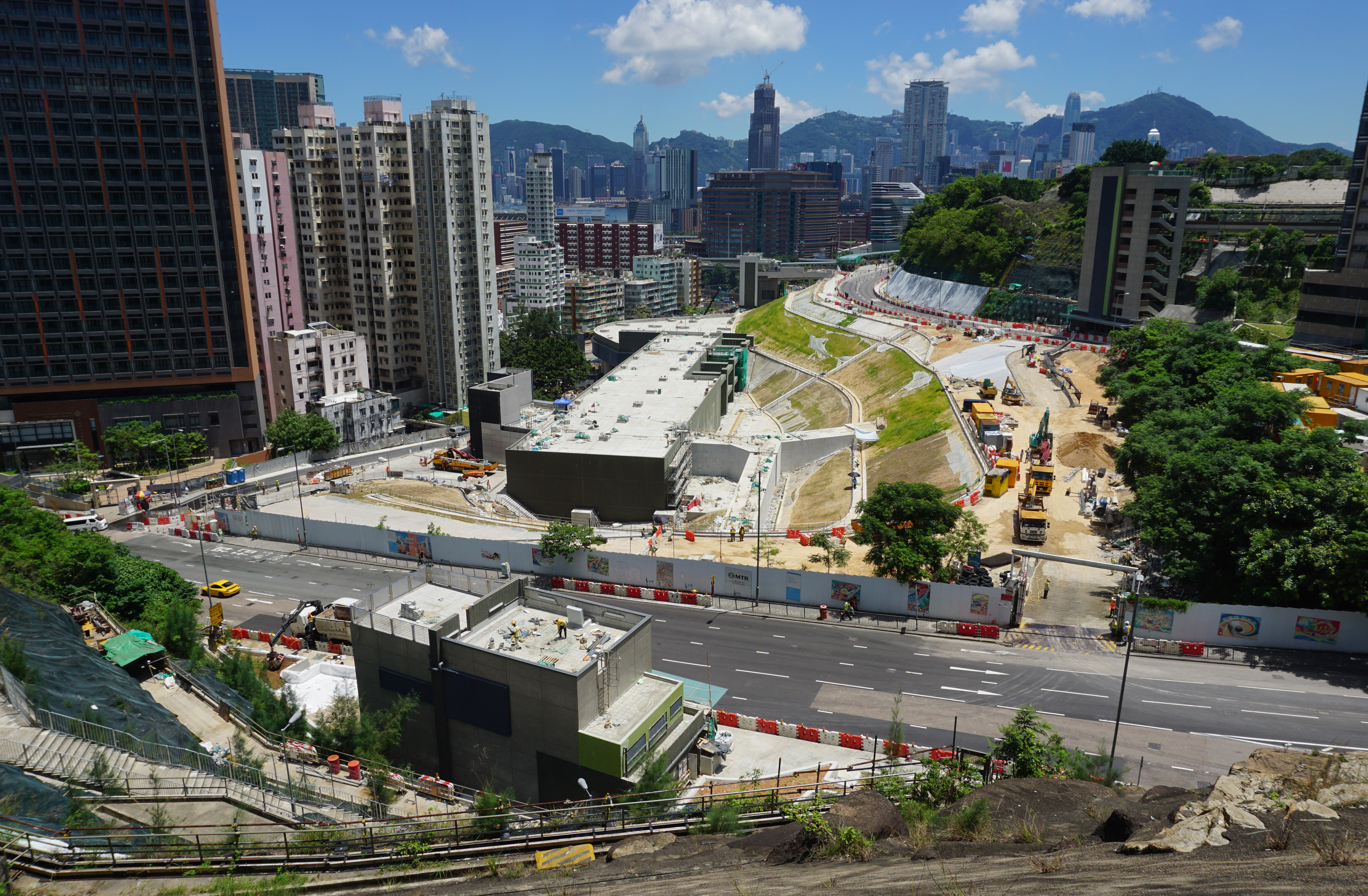 Overlook of MTR Ho Man Tin station under construction